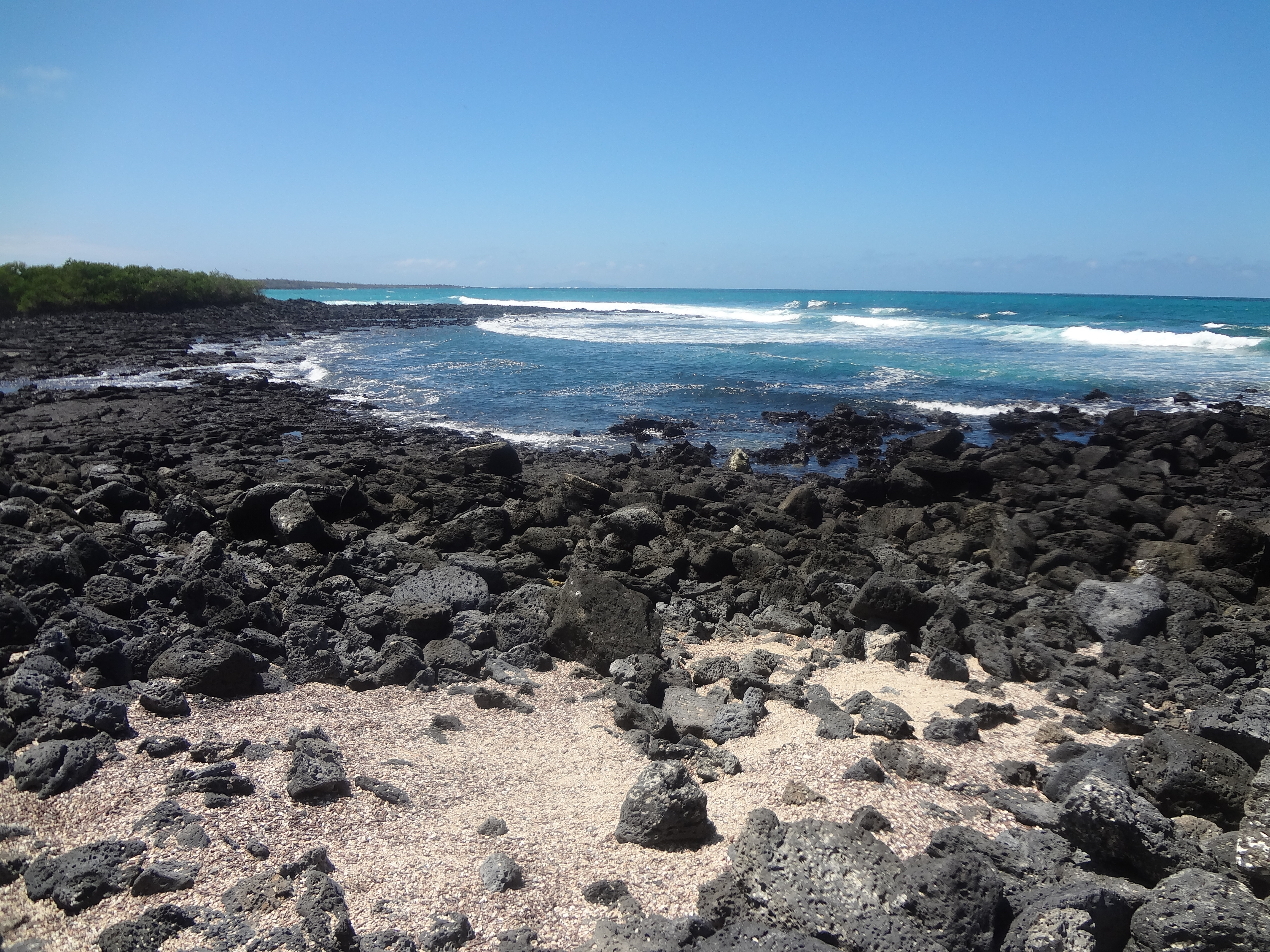 (volcanic rocks) at Tortuga Bay, Galapagos Tortuga Bay is located on the Santa Cruz Island Photography by David Adam Kess